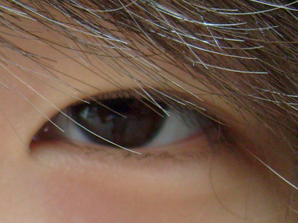 typical epicanthic fold, at a Korean young girl (은영)